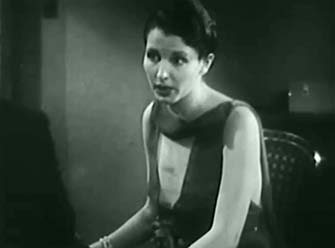 Screen capture of Lita Chevret from the 1930 film, The Pay-Off In 1958, the film entered the public domain in the US due to the copyright claimants failure to renew the copyright registration in the 28th year after publication.